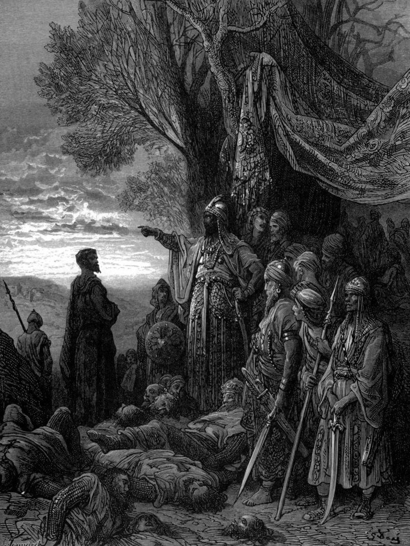 The Turkish emir, Ilghazy, having massacred many prisoners, sends Gauthier, the chancellor, to warn the Christians of the dangers they will face in Palestine.